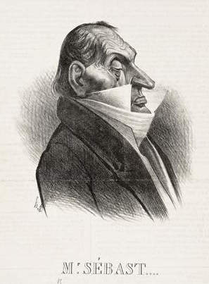 Horace Sébastiani (1772-1851), french marshall and statesman